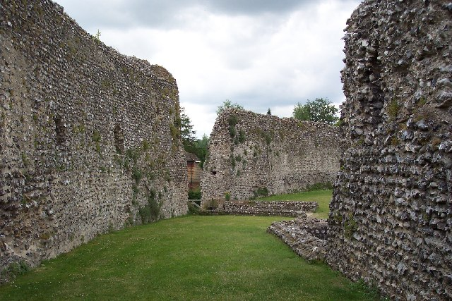 Eynsford Castle, Kent. Eynsford was one of the earliest castles to be given a stone wall. The first wall, 20 feet high, was put up in about 1088, and was later increased in height to 30 feet.